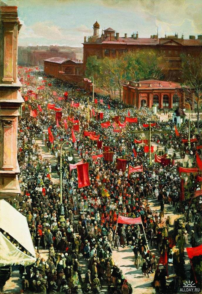 1st May demonstration